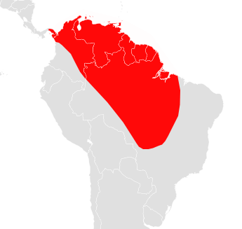 Distribution of Anoura caudifer